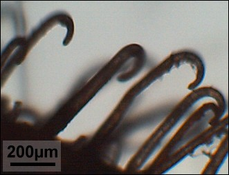 Burr hooks